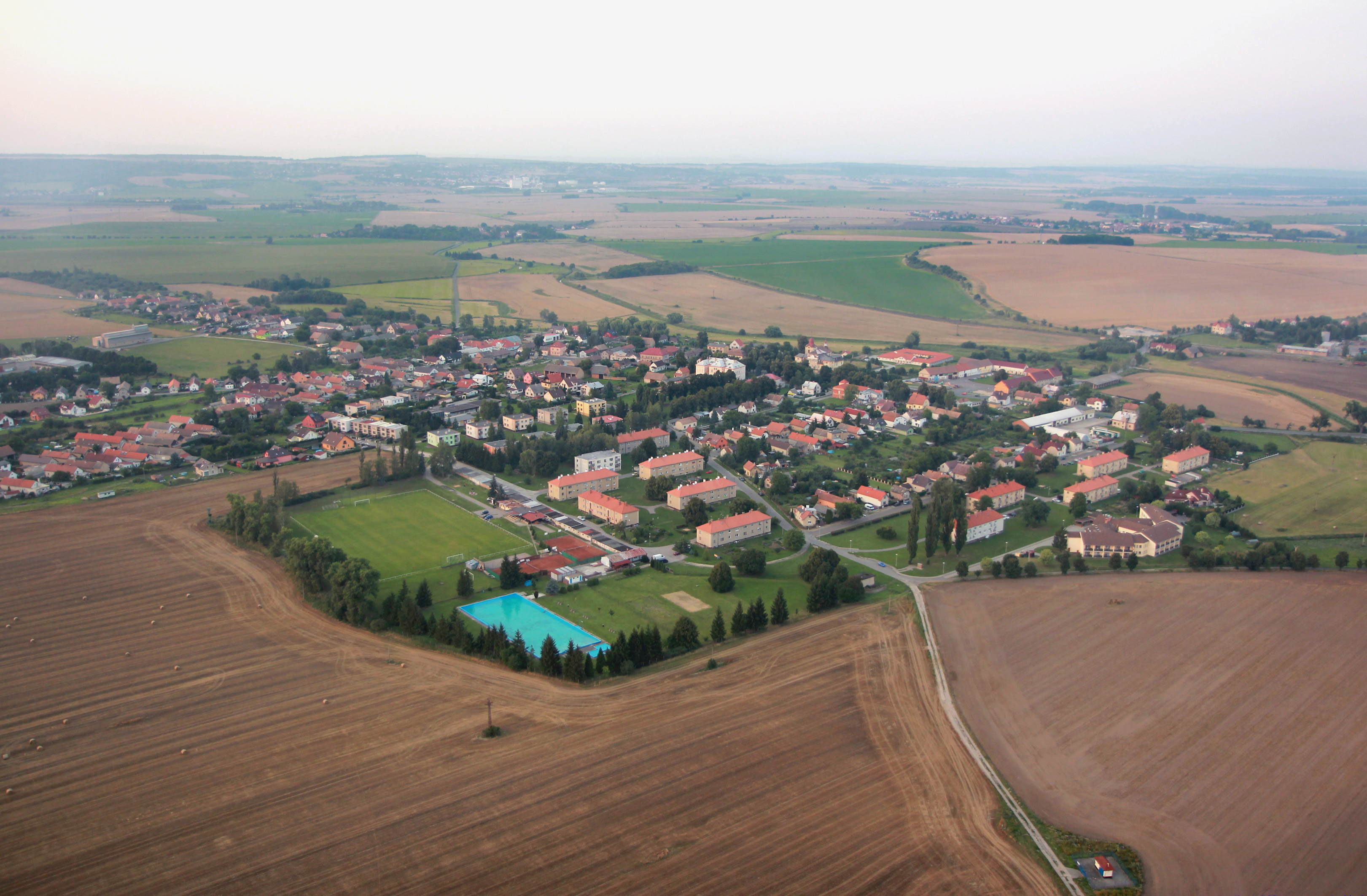 Aerial view of Luštěnice village, Czech Republic